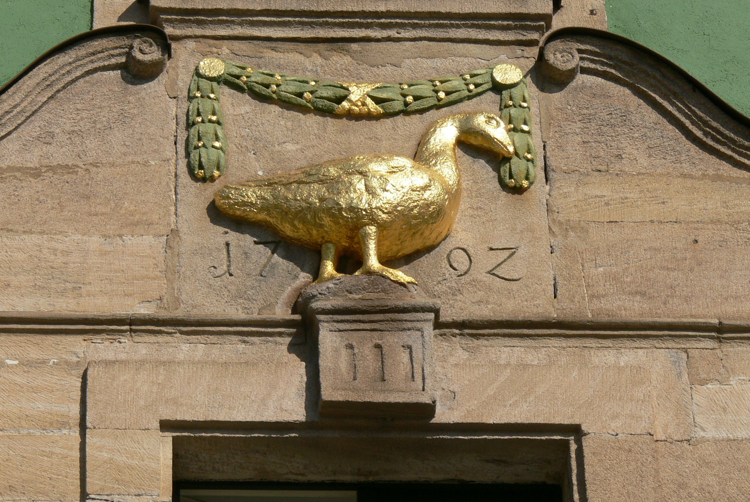 Weißenburg ( Bavaria ). Market square Nr. 9: Golden goose ( 1792 ).